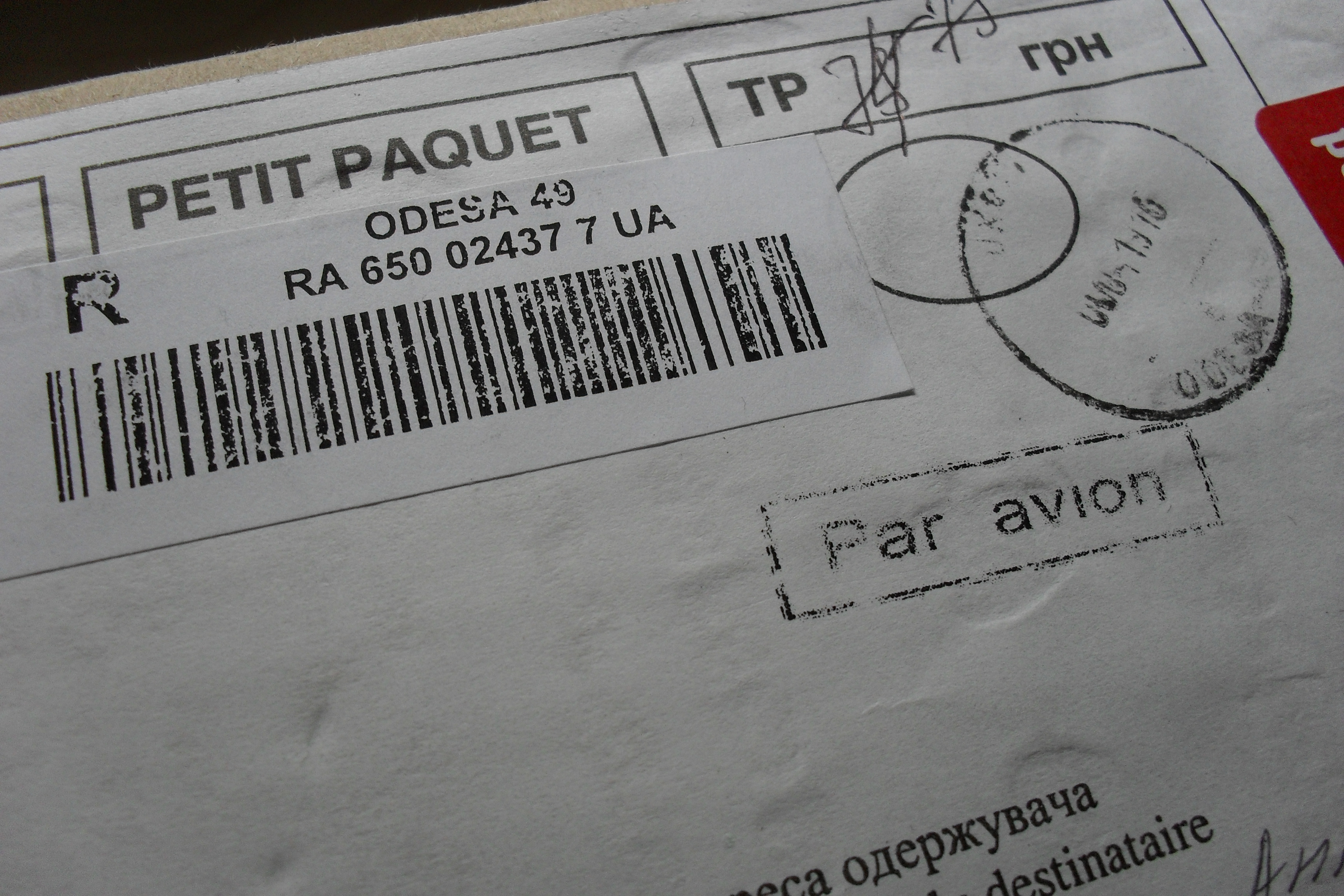 Barcode registration on a mail item